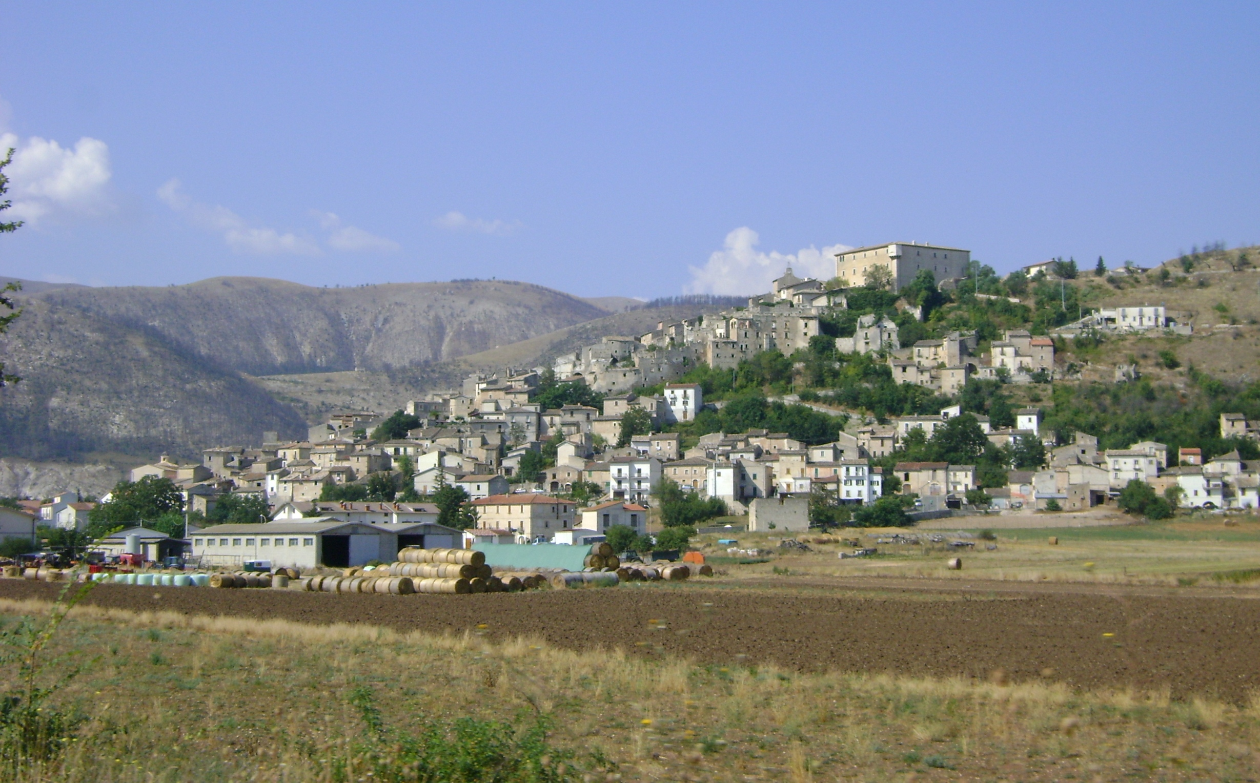 View Navelli, province of Aquila, Abruzzo, Italy